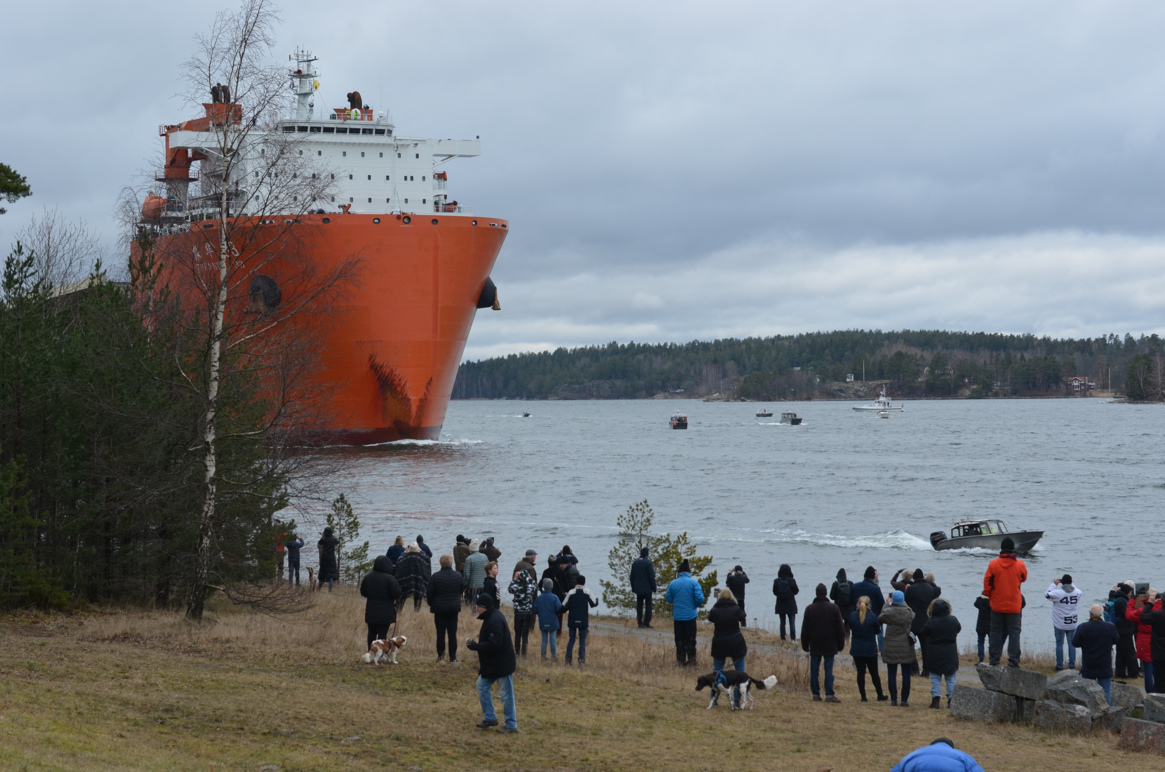 Chinese special cargo ship MS Zhen Hua 33 entering Oxdjupet, sailing to Stockholm, Sweden